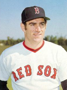 Professional baseball player Dick McAuliffe